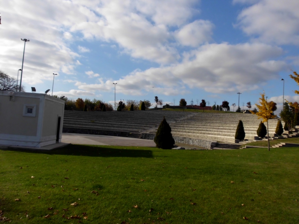 topkapı11